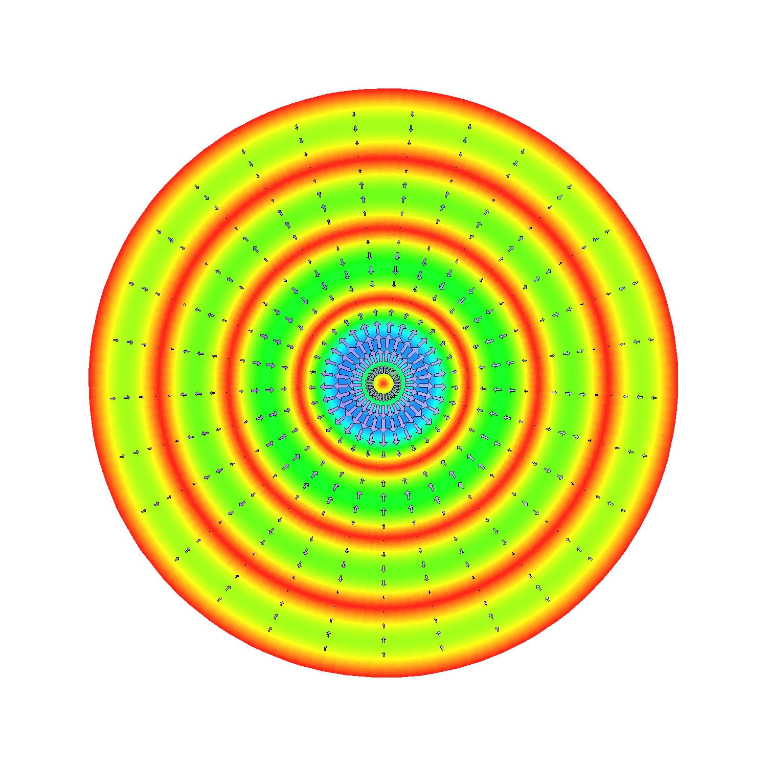 Plot of E and H fields on the TEnl mode defined by n and l